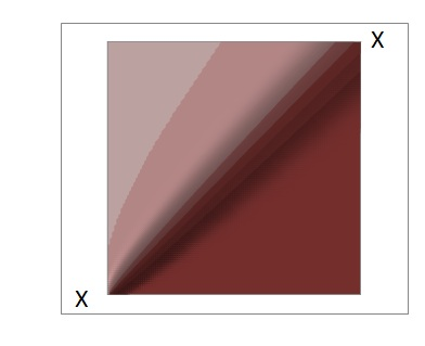 convection